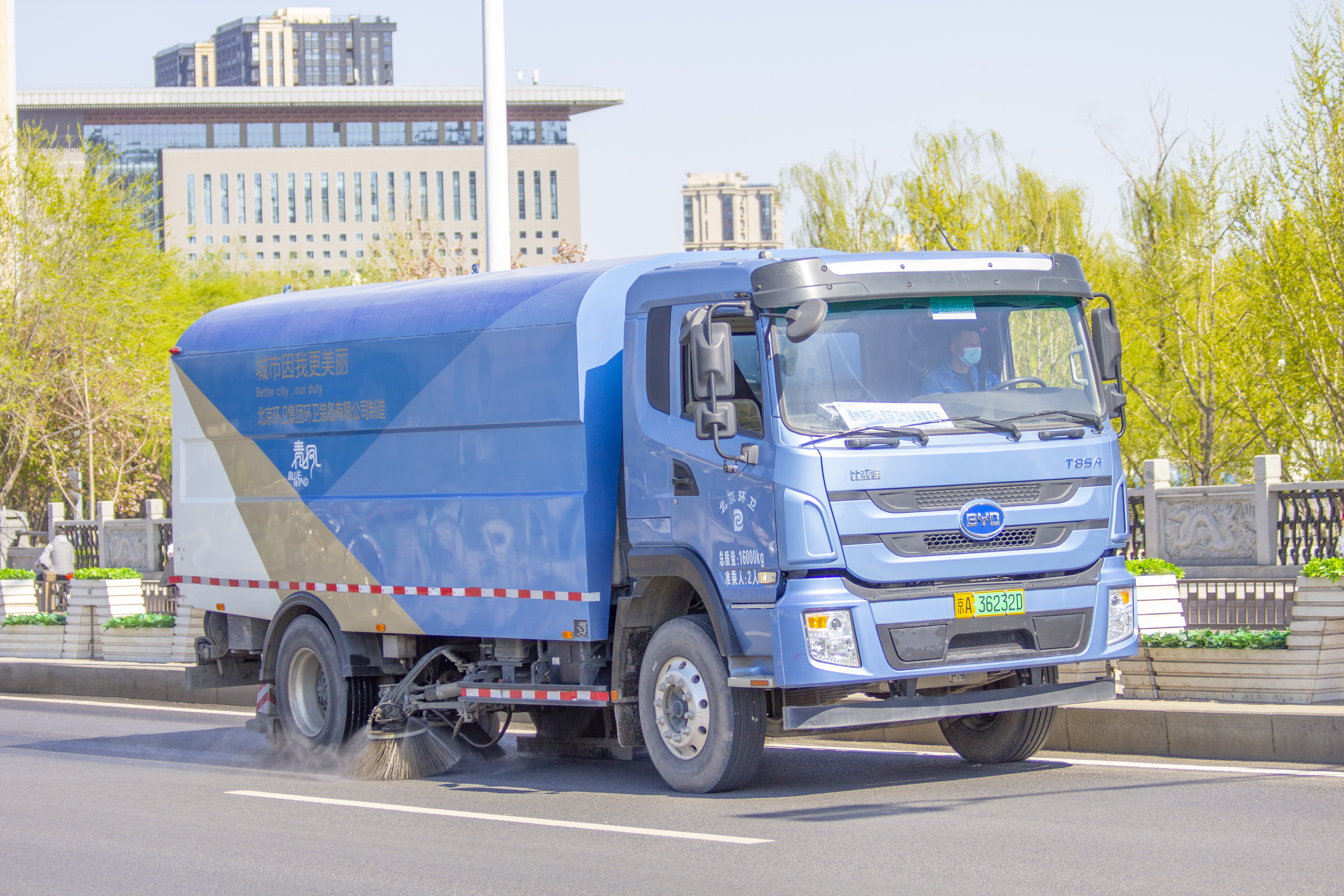 BYD T8SA